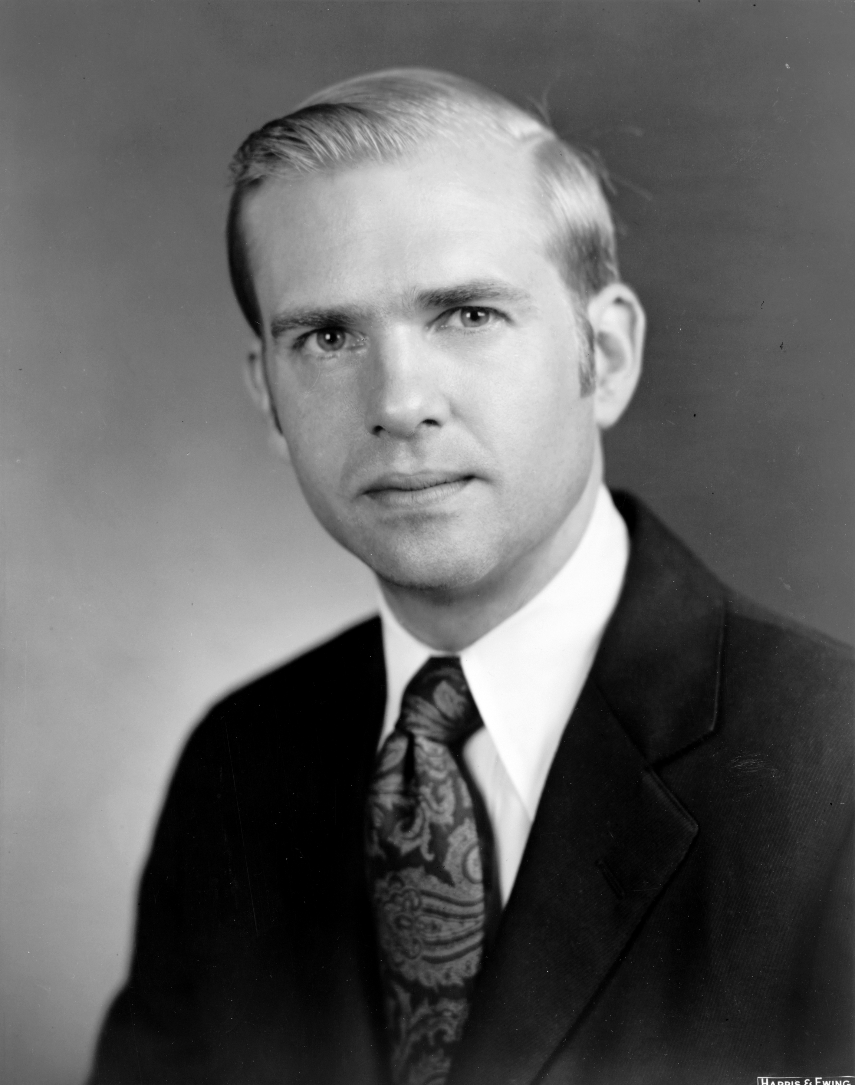 William A. Steiger, U.S. Congressman from Wisconsin